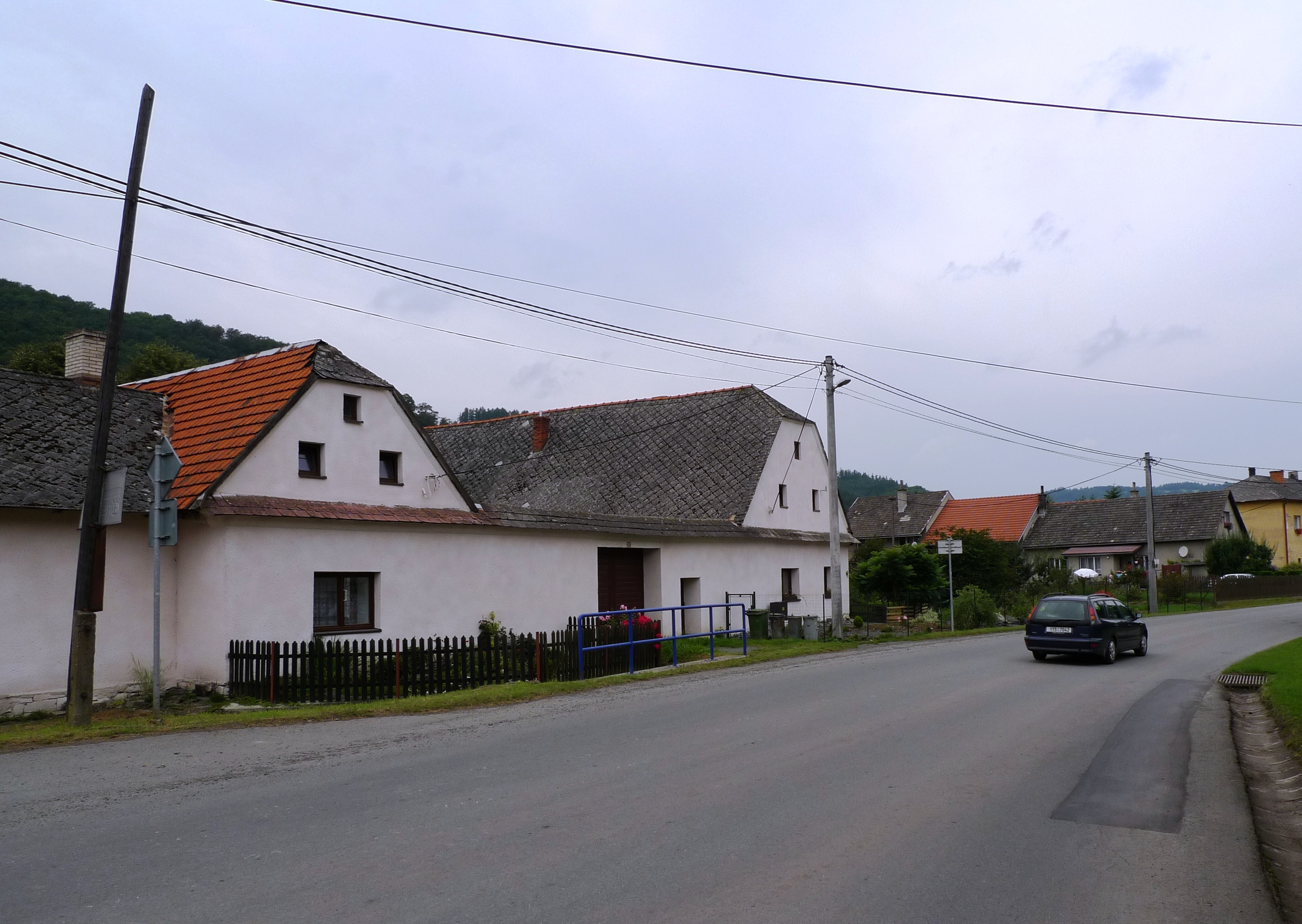 Heřmánky